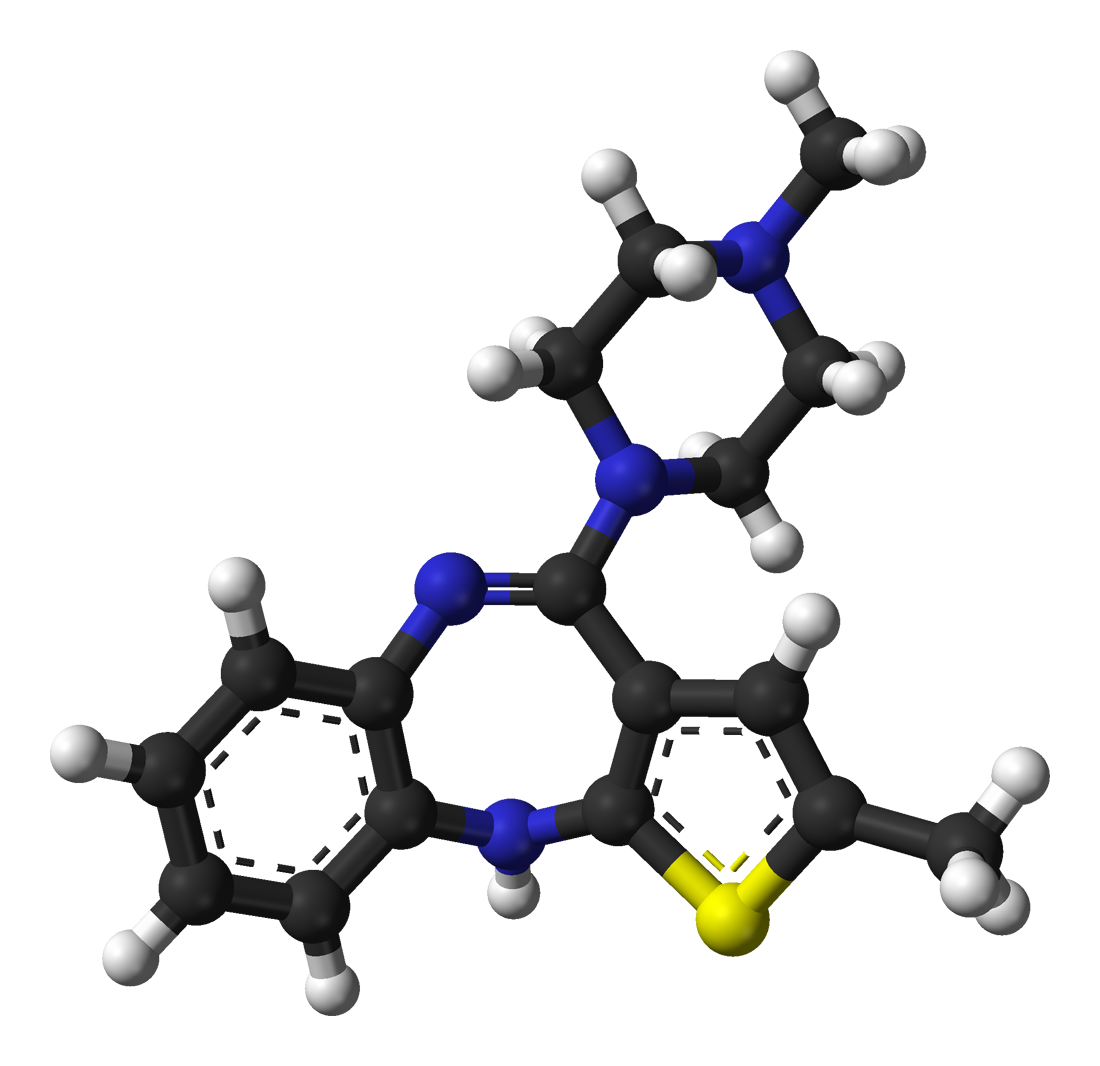 Ball-and-stick model of the olanzapine molecule, C17H20N4S . X-ray diffraction data from I. Wawrzycka-Gorczyca, A. E. Koziol, M. Glice and J. Cybulski (January 2004). "Polymorphic form II of 2-methyl-4-(4-methyl-1-piperazinyl)-10H-thieno[2,3-b][1,5]benzodiazepine". Acta. Cryst. 'E60' (1): o66-o68.